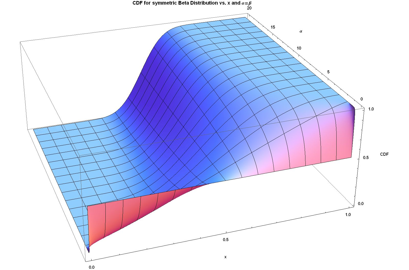 CDF for symmetric Beta distribution vs. x and alpha=beta - J. Rodal